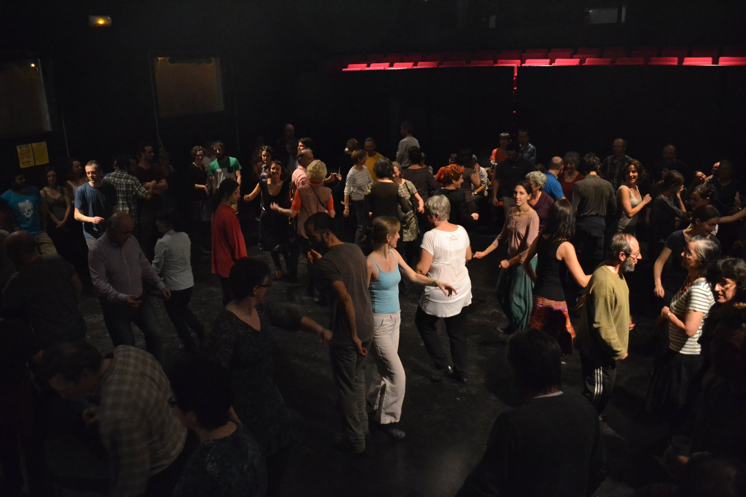 Dancing people during a ball organized by Tiss'liens 64 on 2015, january.